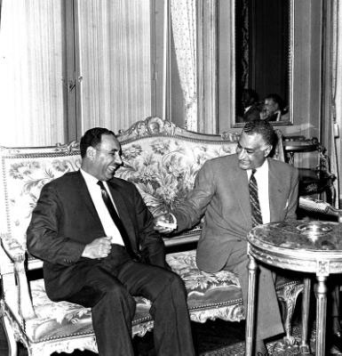 President Gamal Abdel Nasser with Iraqi President Abdel Salam Aref at a conference of Arab heads of state in Cairo, Egypt